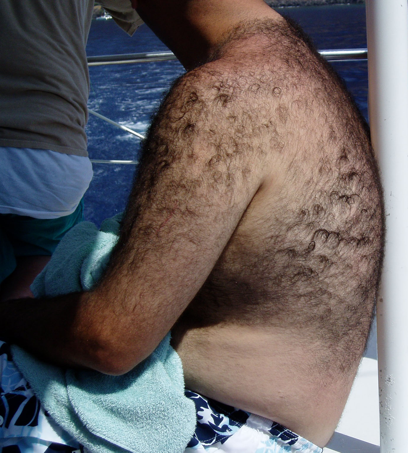 Androgenic body hair, photograph taken on Maui, Hawai'i